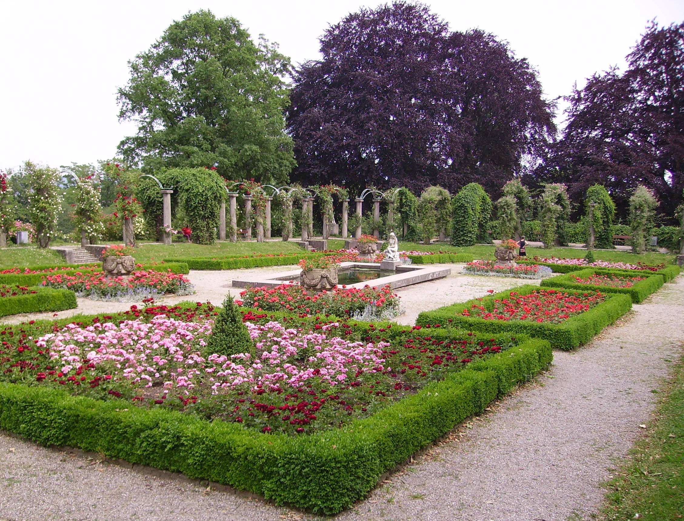 garden in Stuttgart-Bad Cannstatt, Germany